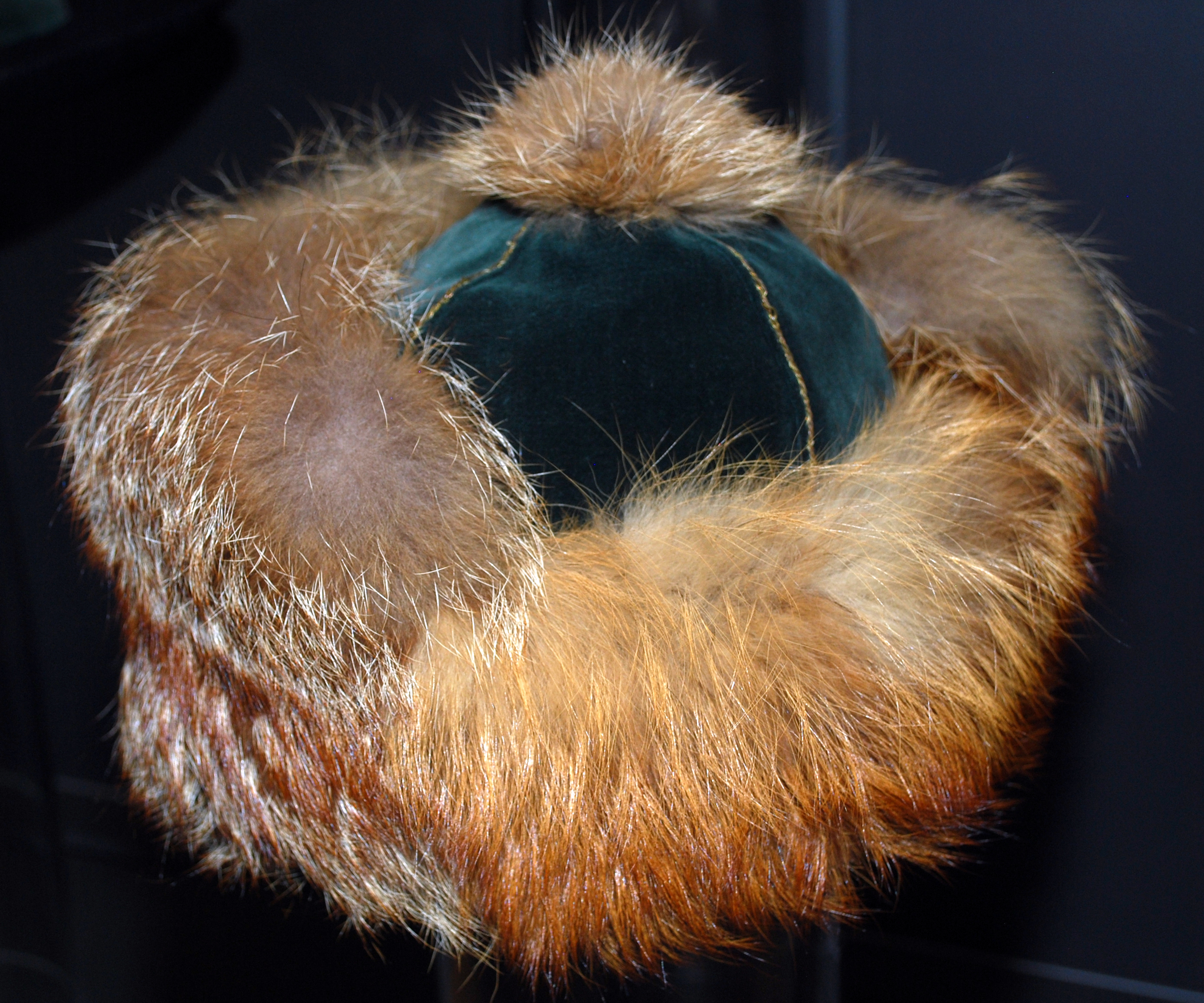 Valachian fur cap with atalas from XIX century